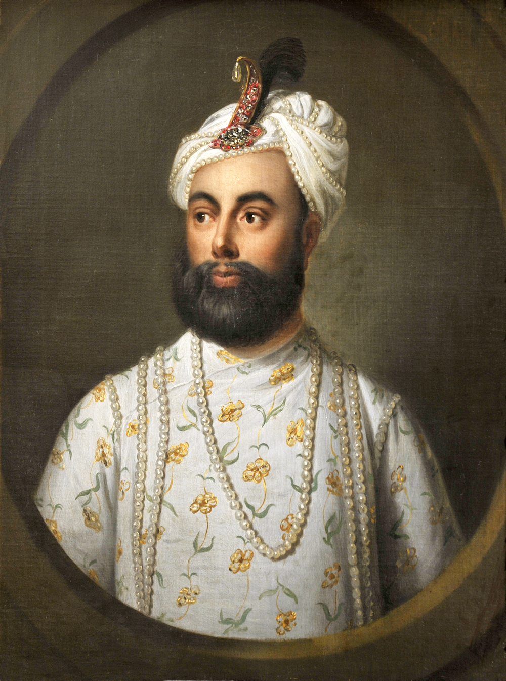 Prince Azim-ud-Daula (1775–1819), Nawab of the Carnatic